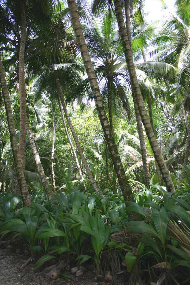 Cocos bon Dieu - dense coconut forest on Diego Garcia, British Indian Ocean Territory